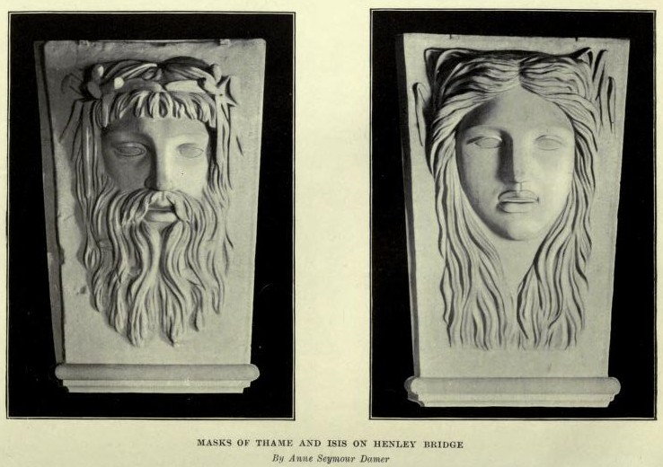 Reliefs of Thame (god) and Isis (Godess) by Anne Seymour Damer, keystones for and at Henley Bridge